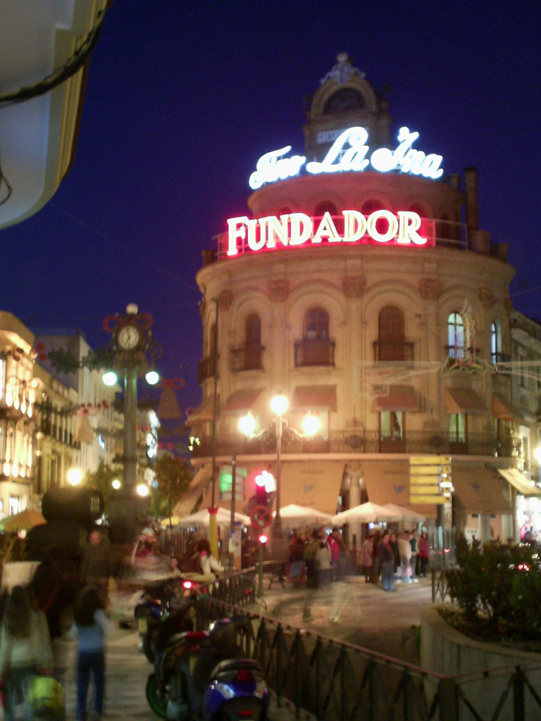 City of Jerez